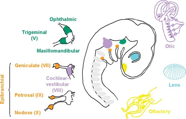 The olfactory (yellow), lens (blue), trigeminal (green), otic (purple) and epibranchial (orange) placodes locate to characteristic positions here shown in a side view of a 3-day-old chick embryo. Their derivatives are shown with sense organs on the right and cranial ganglia on the left. Adapted from D’Amico-Martel and Noden, 1983.